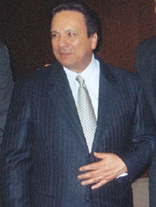 Governor Mark Warner and California Latino Legislative Caucus Members Hector De La Torre, Chair Joe Coto, Jenny Oropeza, Simón Salinas, and Alberto Torrico.